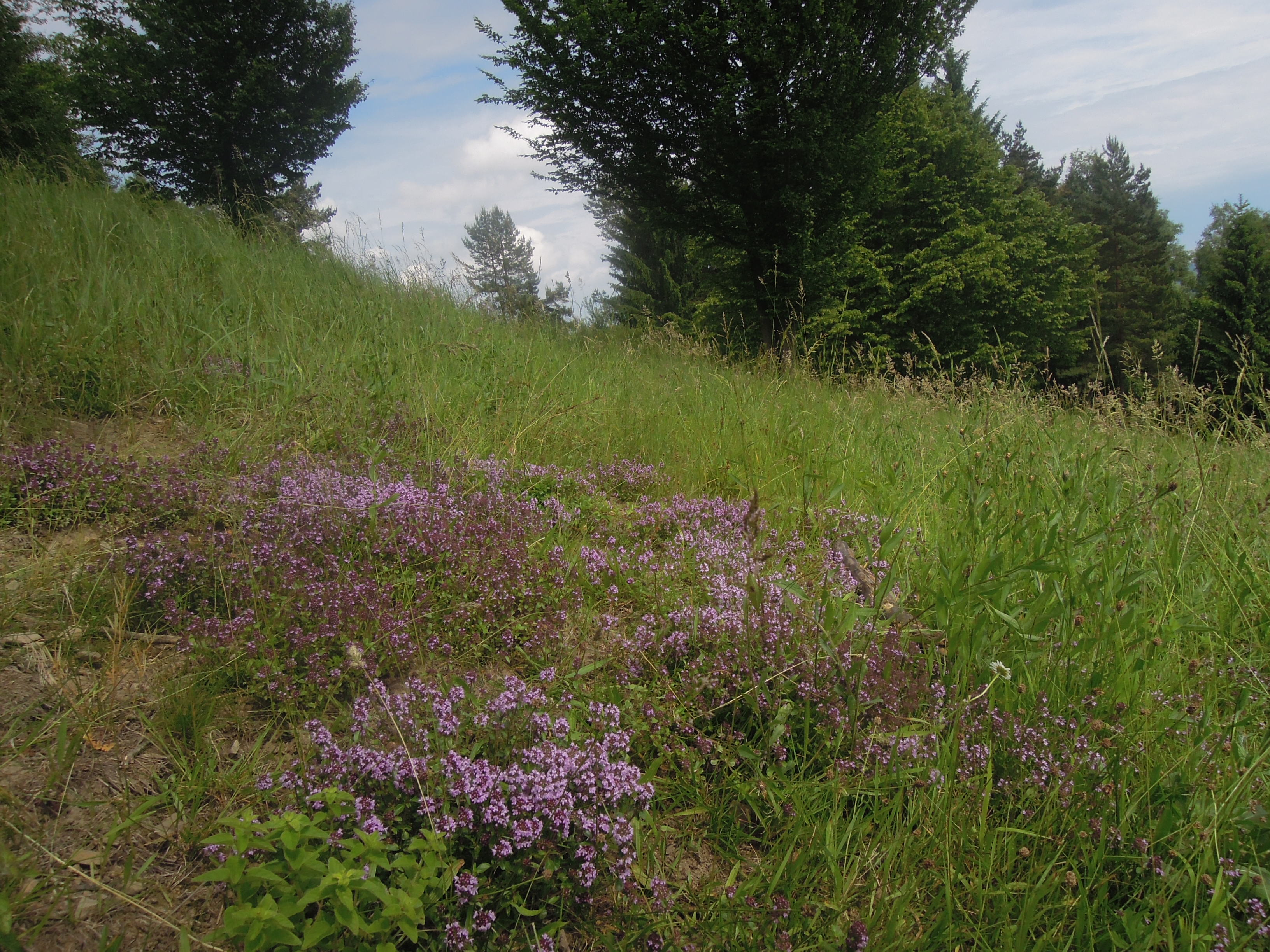 Thymus pulegioides at nature reserve Ploščiny in Poteč, Zlín District, Zlín Region, Czech Republic